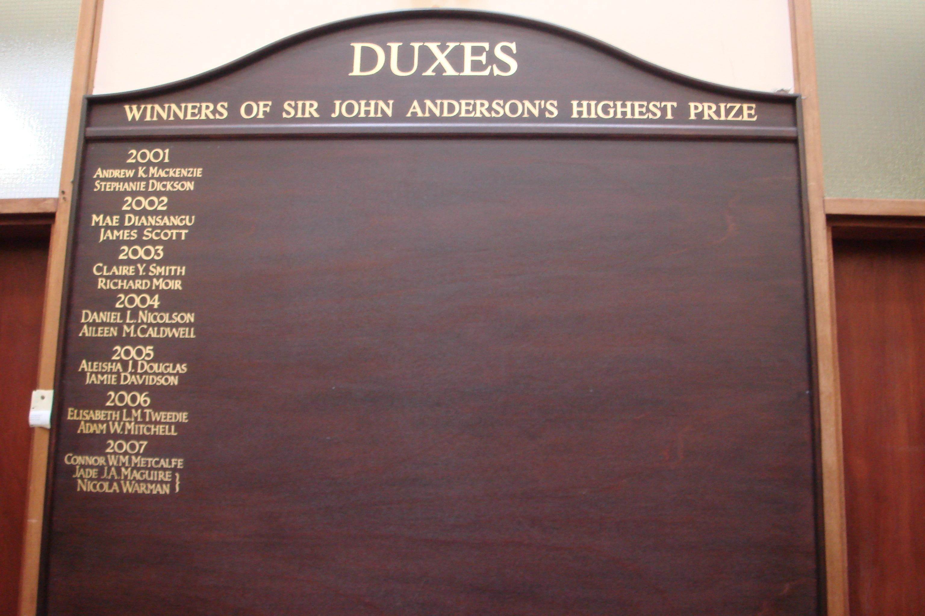 Woodside Primaey School - New Dux Board